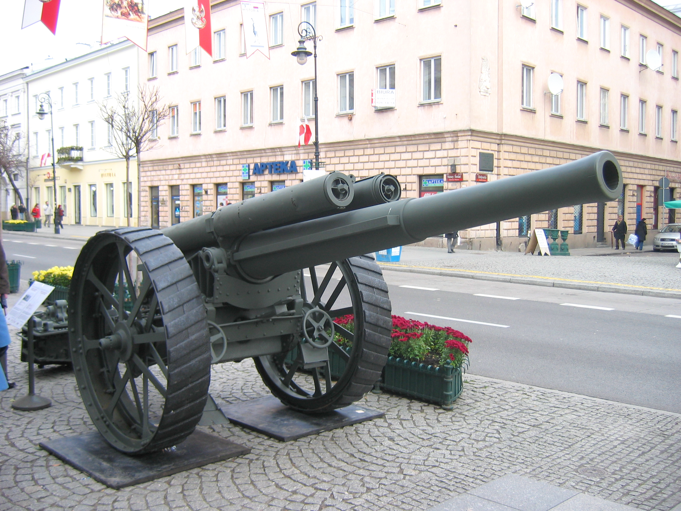 BL 60 pounder Mk I gun of Red Army captured by Polish soldiers, on display in Warsaw.